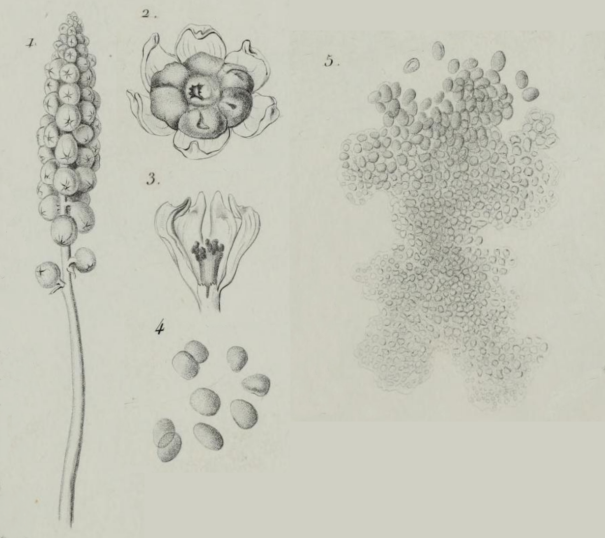 Antherospora vaillantii, smug fungi on Leopoldia comosa (original invalid synonym : Ustilago Vaillantii)